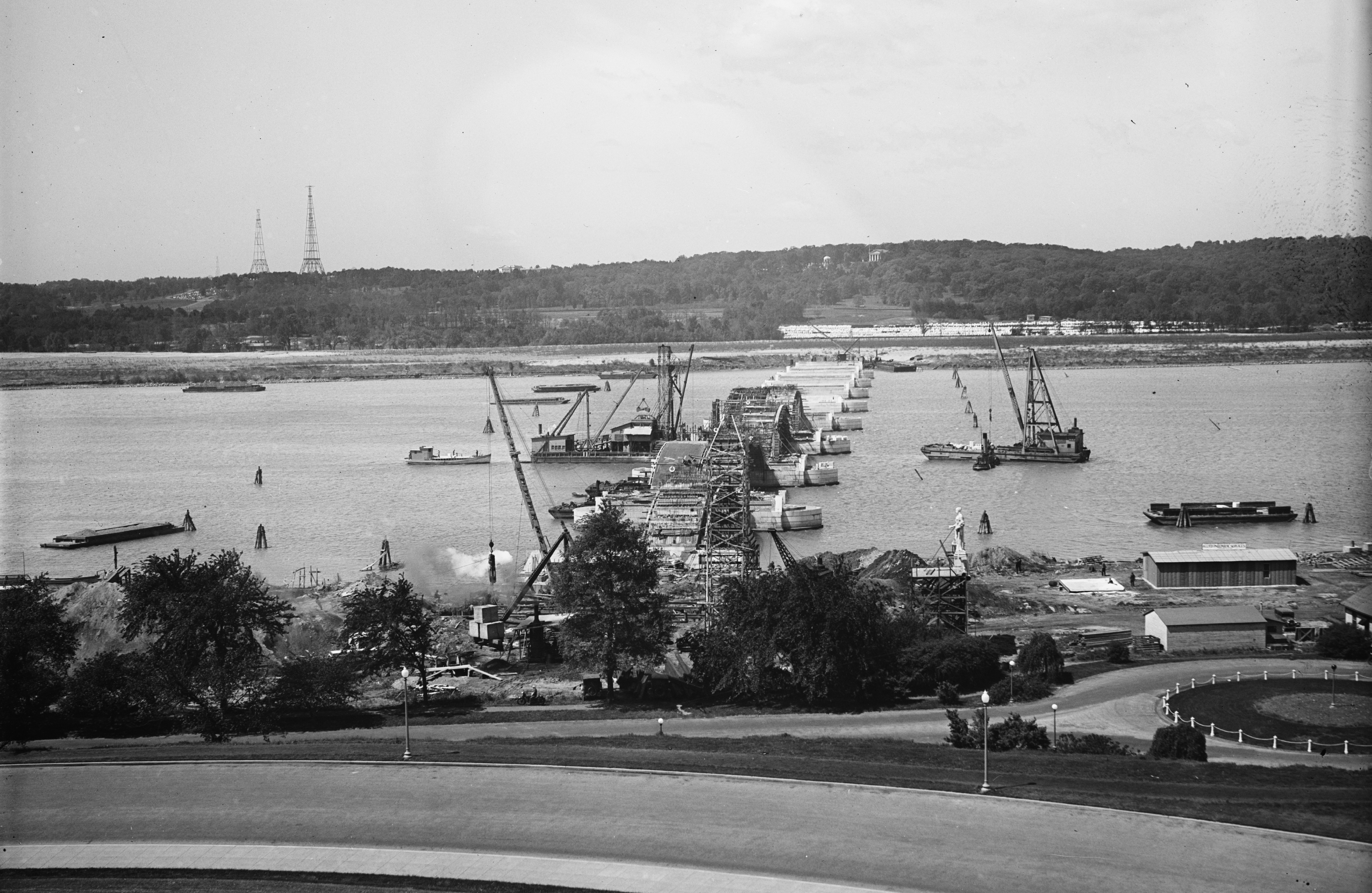 Looking east at construction on Arlington Memorial Bridge over the Potomac River in Washington, D.C., in the United States. Note the statue on the partially-constructed pedestal just to the right of the abutments (bottom center). The U.S. Commission of Fine Arts erected this mock-up to determine how high statues on the piers of the bridge should be.